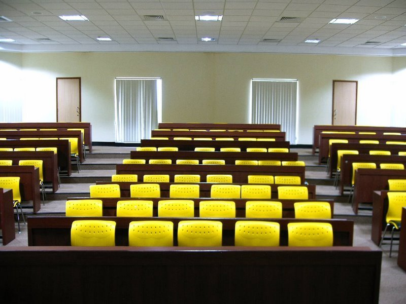 Interact AC classrooms, Kasturba Medical College, Manipal